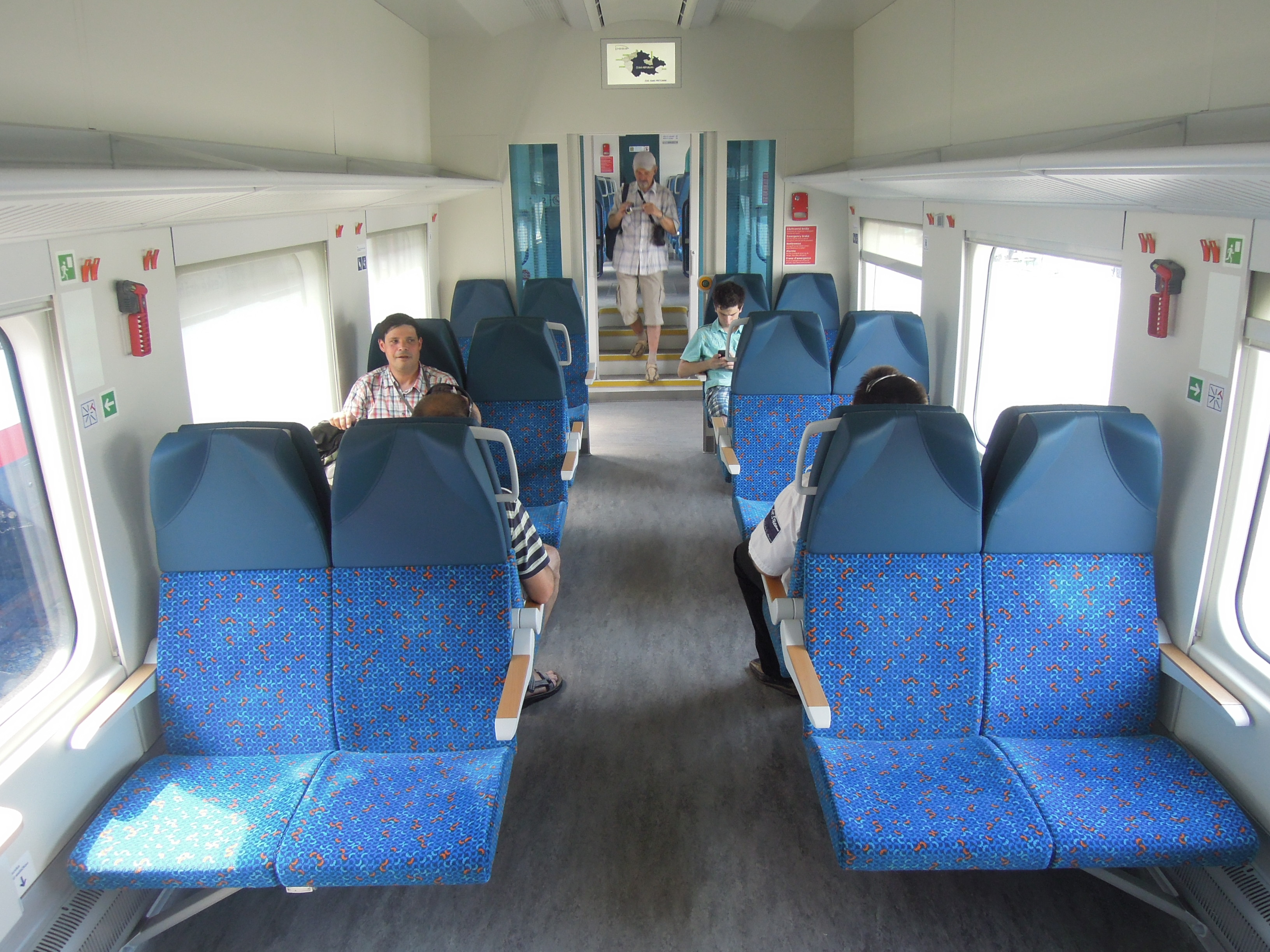 Diesel multiple unit class 844 RegioShark of České dráhy at the Czech Raildays 2013 trade fair in Ostrava, Czech Republic